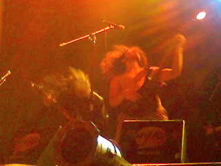 Valhalus Rocking at HRL mexico city